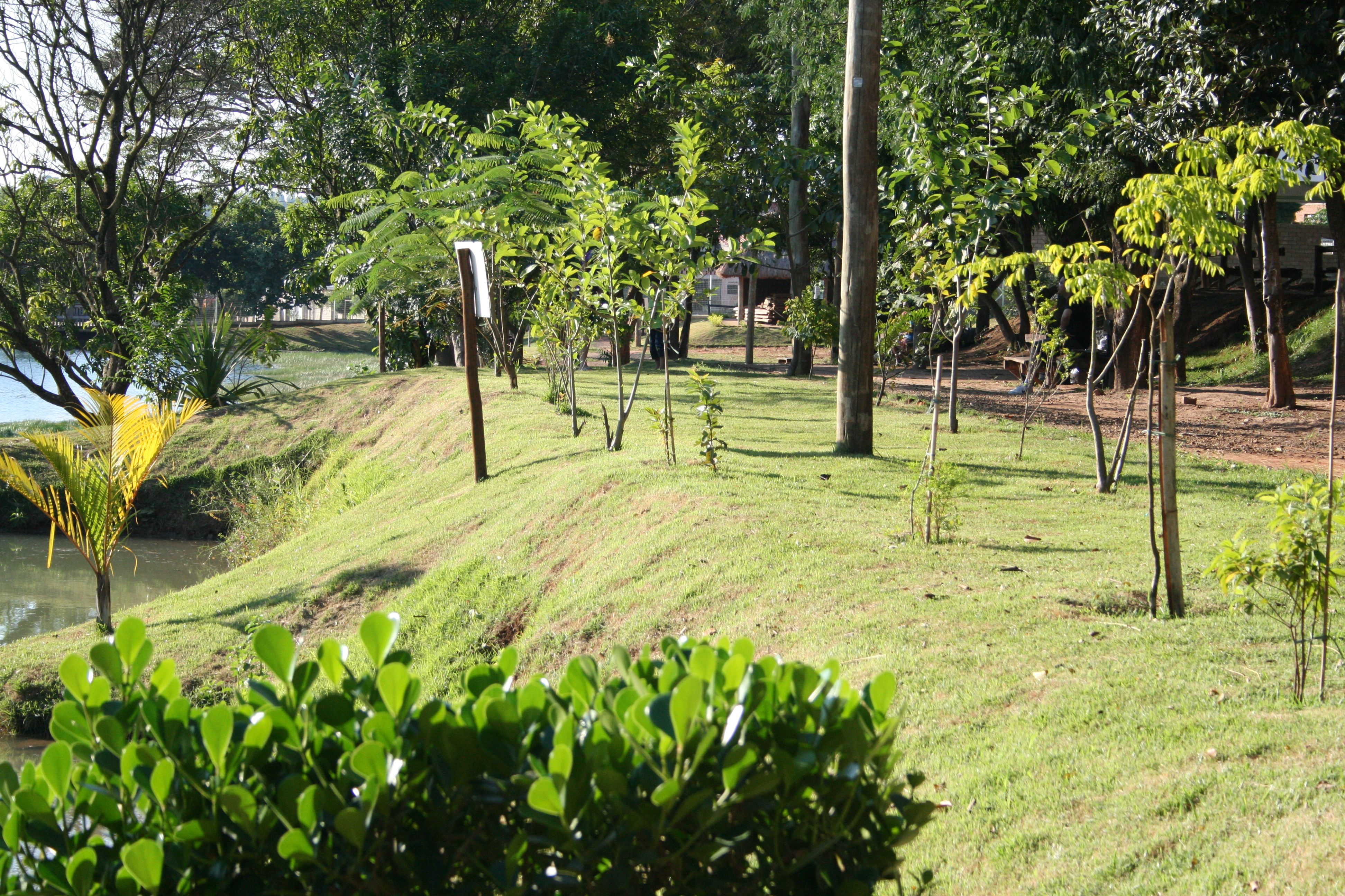 Park Environmental Socio Irma_Dorothy_Stang